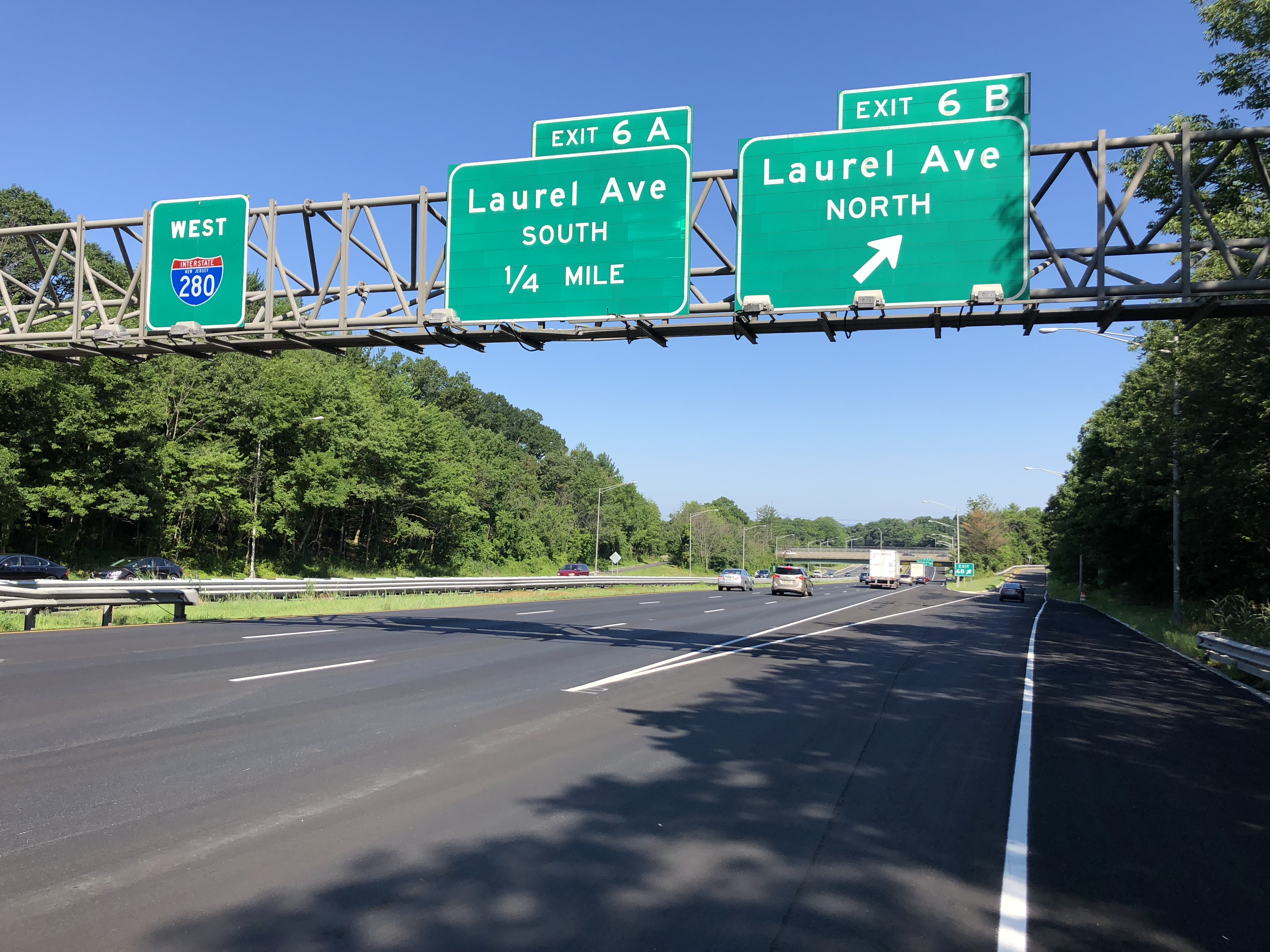 View west along Interstate 280 (Essex Freeway) at Exit 6B (Laurel Avenue NORTH) in Livingston Township, Essex County, New Jersey